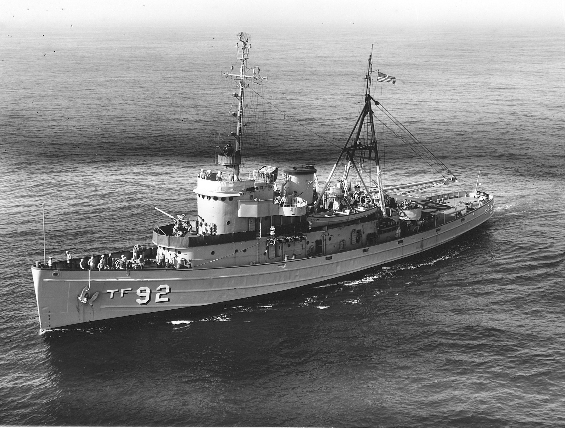 USS Tawasa (ATF-92) underway, circa 1950s, location unknown. US Navy photo